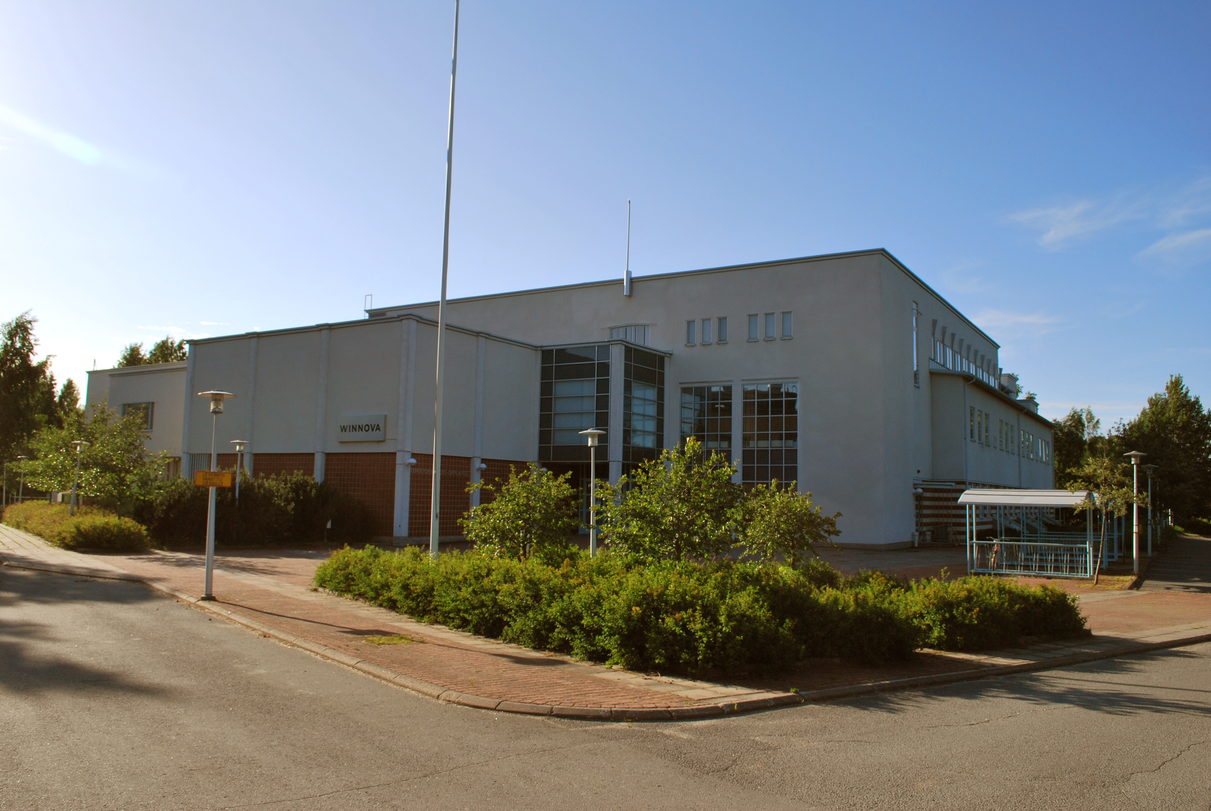 WinNova educational center in Rauma